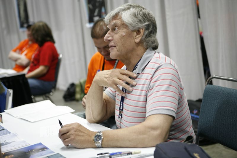 In the autograph area, Dave Prowse who played Darth Vader in Episodes IV, V and VI. Photo by Jenny Elwick. Read more at the Official Celebration IV blog.